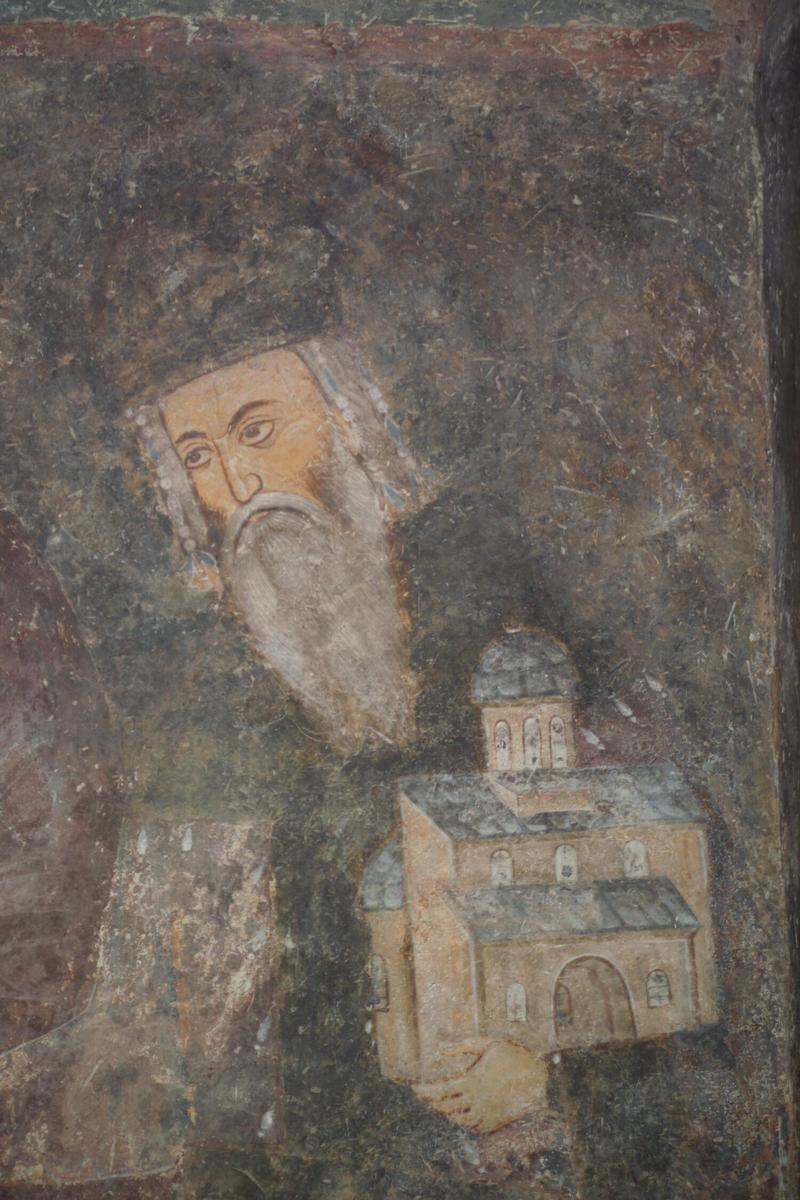 Stefan Uroš I, second half of the XIII century, fresco from Sopoćani monastery, Serbia